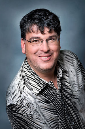 Author Jean-Benoît Nadeau's headshot.